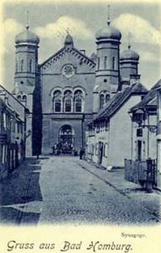 Postcard of the synagogue of Bad Homburg (1866-1938)